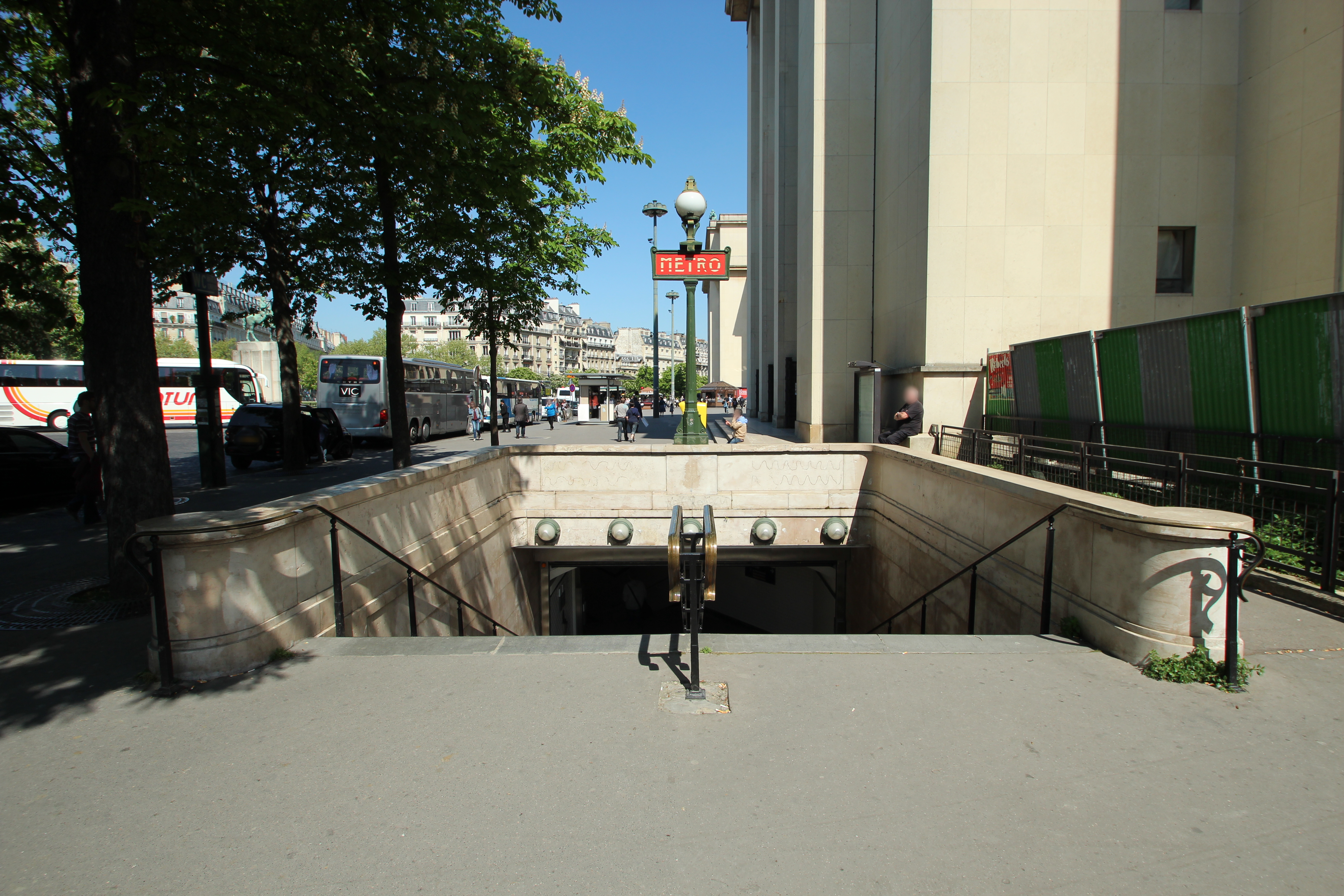 View of Trocadéro-et-du-11-Novembre place in Paris, France.